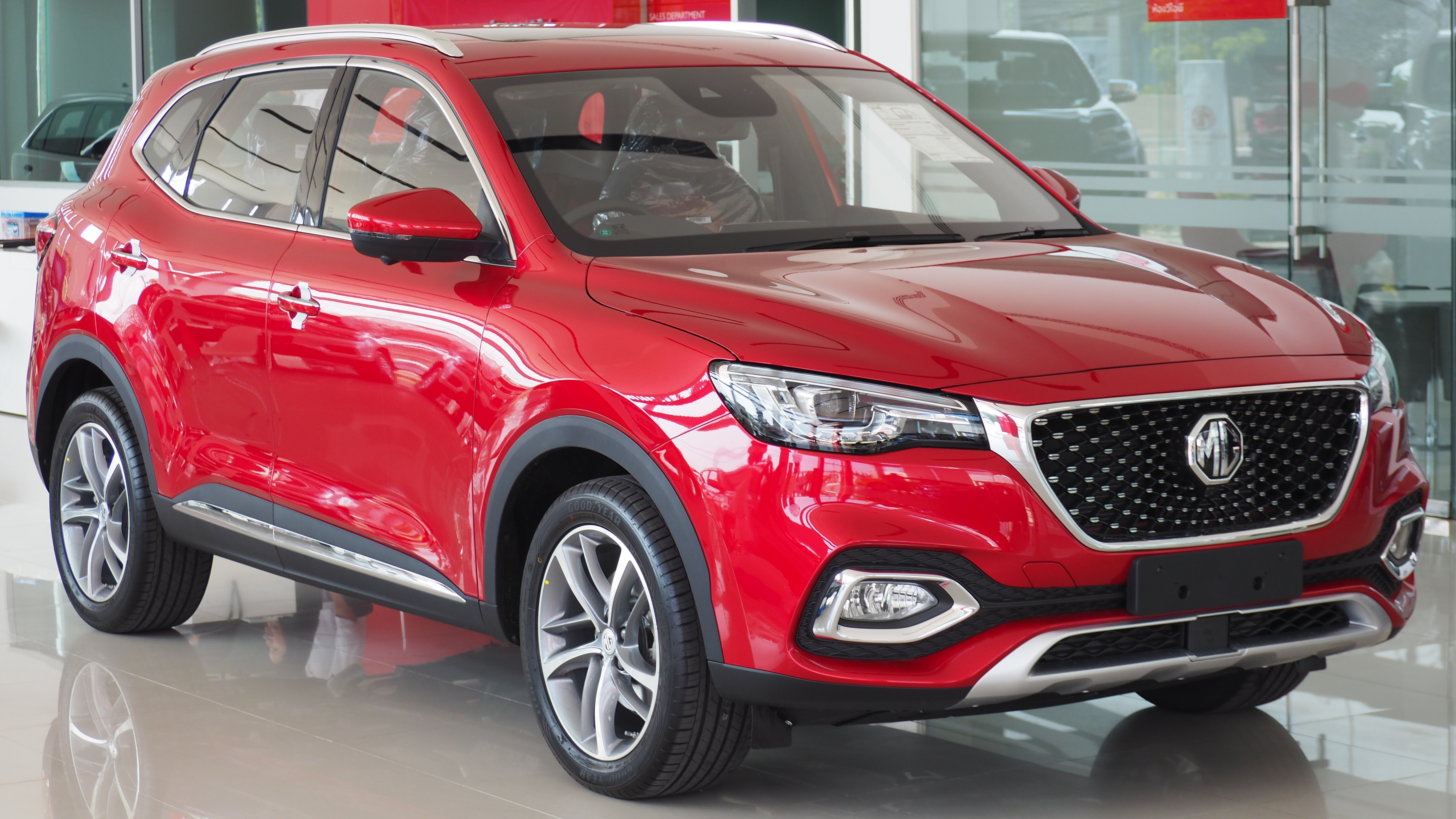 2019 MG HS Turbo X in MG Khon Kaen, Khon Kaen, Thailand.